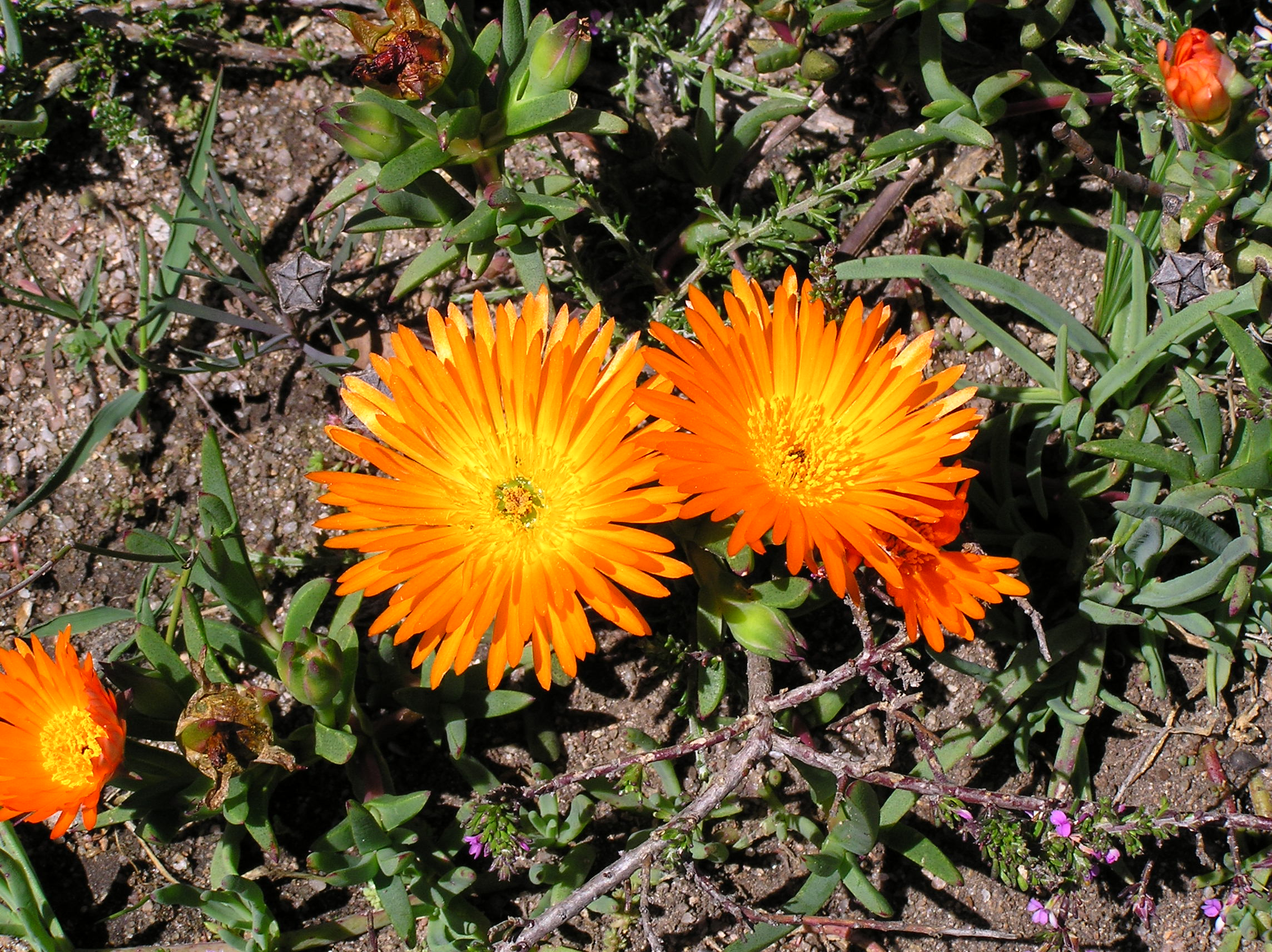 Wildflowers in Spring, West Coast National park, Western Cape, South Africa